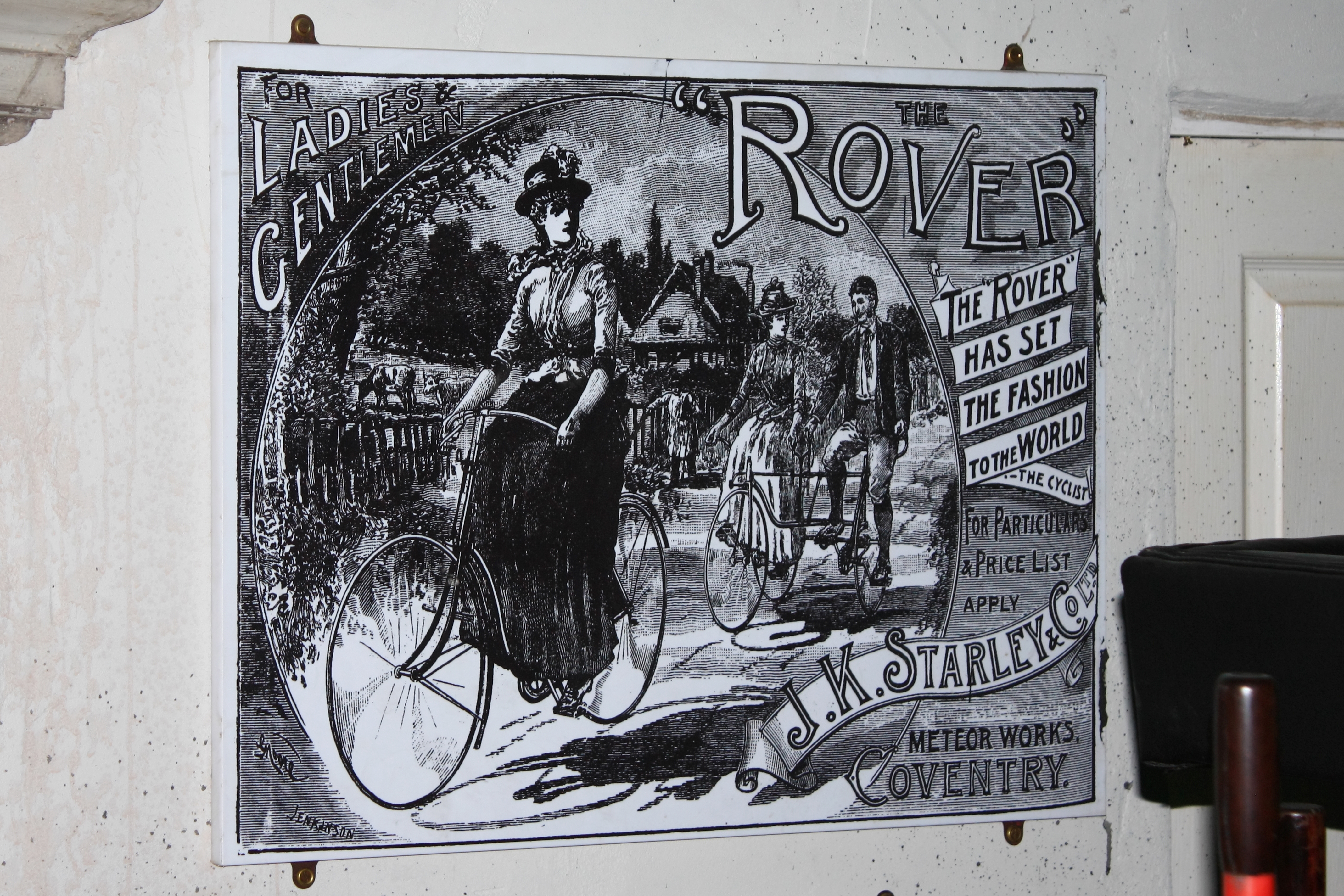 Coventry Transport Museum, UK. 2009